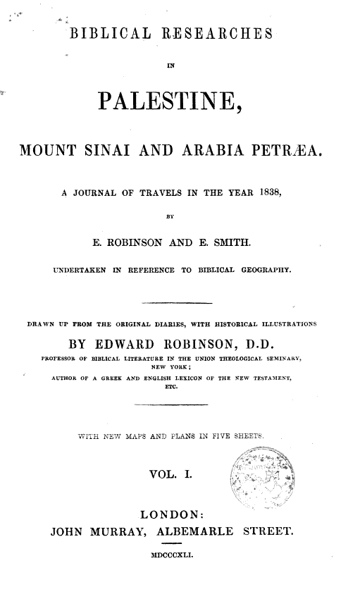 Biblical Researches in Palestine, Mount Sinai and Arabia Petrea front cover